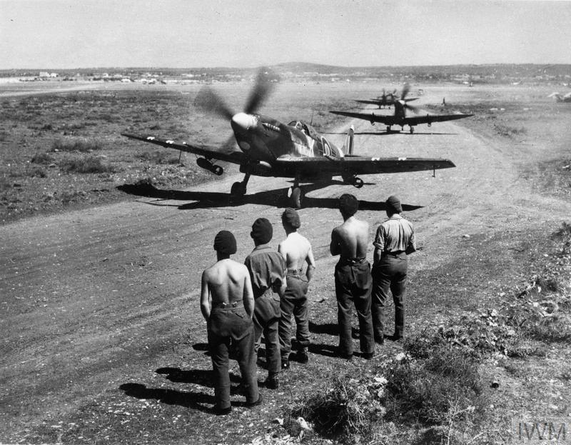 ROYAL AIR FORCE: ITALY, THE BALKANS AND SOUTH-EAST EUROPE, 1942-1945. (CNA 3525) Supermarine Spitfire Mark IXs of No. 73 Squadron RAF, each loaded with two 250-lb GP bombs, taxy to the runway at Prkos, Yugoslavia, for a sortie against retreating German troops and supply lines. They are being watched, in the foreground, by a Bofors gun crew of No. 2914 LAA Squadron RAF Regiment, which provided the anti-aircraft defence for the airfield. Copyright: � IWM. Original